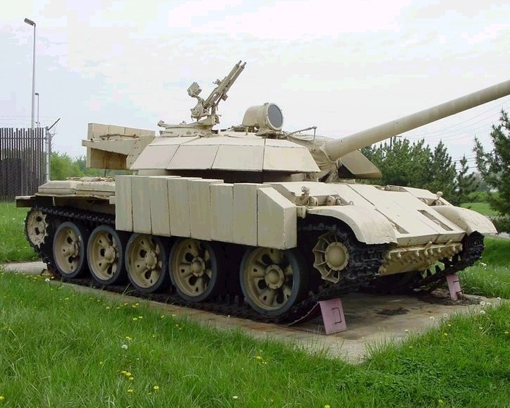 Iraqi T-55 with apliqué armour. Photo taken on March 2004 in Bovington Museum, Dorset, UK. Author: Darius